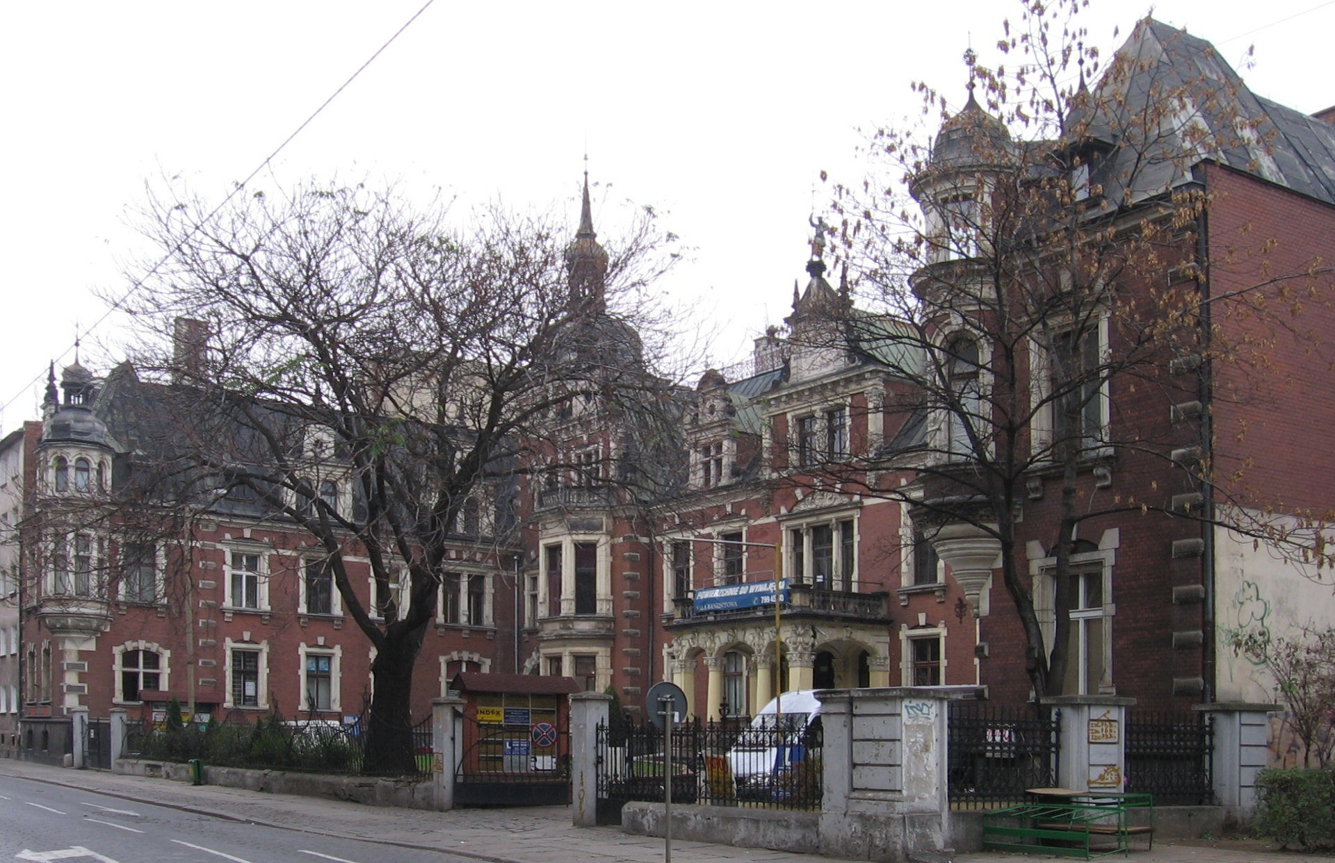 Wrocław, Poland. Pałacyk (Kościuszki Street) - "Small Mansion" - villa of Schaffgotsch family in Wrocław, built in 1890 by architect Karl Heidenreich